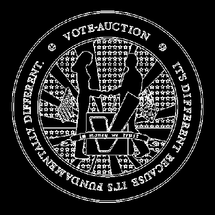 This is the Seal of the [V]ote-Auction Project by - The graphics illustrates the almost sceletal remains of governemental power in the form of a seal. The raw and rough quality of the seals finally stand in contrast to the visually soft „spoken“ approach of the [U.S.] government and its institutions in dealing with media, war and reality.